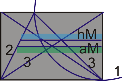 Drawing the harmonic and the arithmetic means